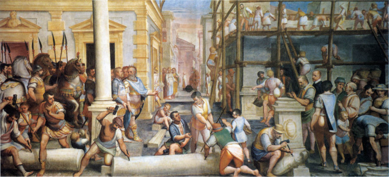 Fresco in a hall of the Palazzo Lercari-Parodi (Via Garibaldi 3, Genoa), called "La costruzione del fondaco dei genovesi a Trebisonda presente". By Luca Cambiaso. Painted in or just after 1571.